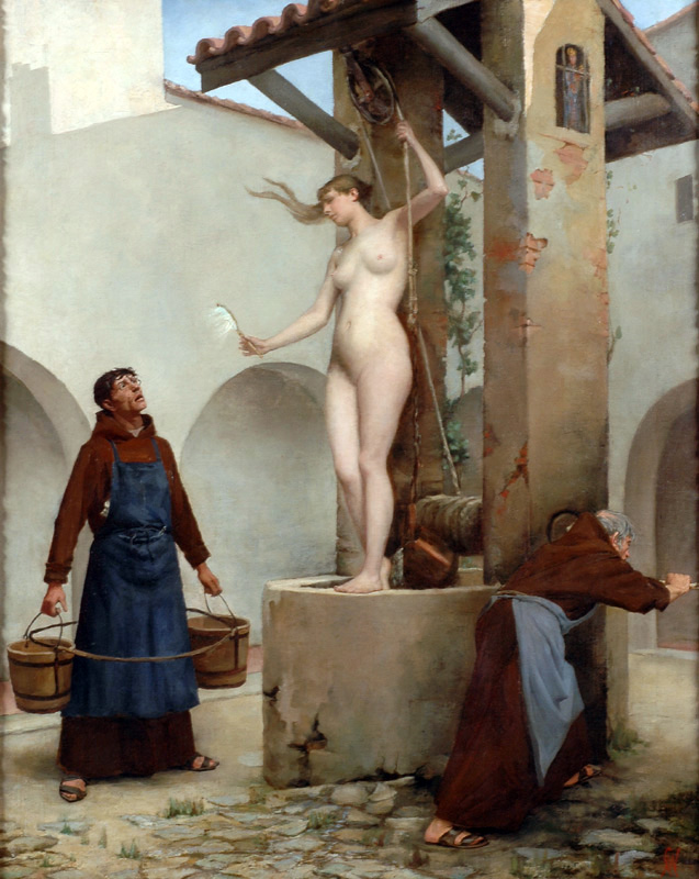 Spirit of the Well